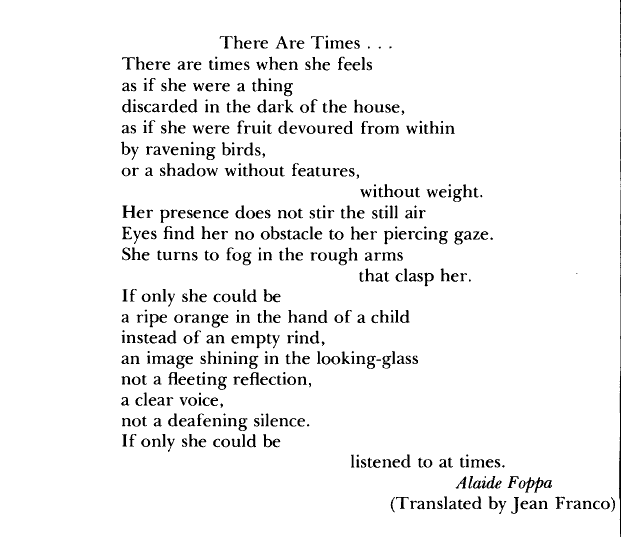 Poem by Foppa.